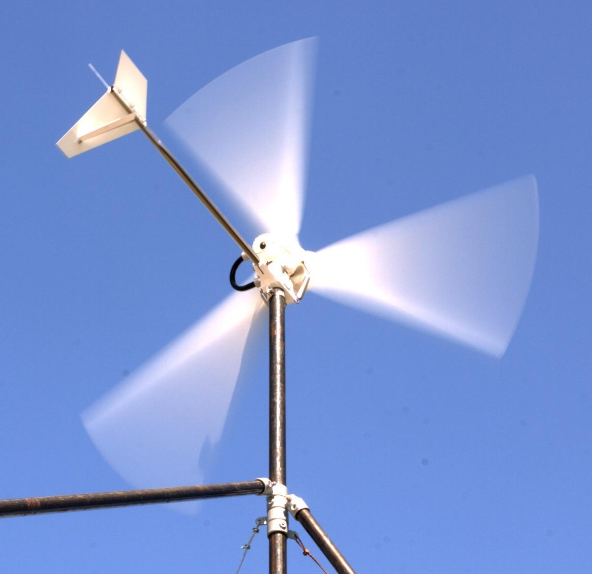 This rooftop-mounted urban wind turbine charges a 12 volt battery and runs various 12 volt appliances within the building on which it is installed. The Lakota wind turbine from True North Power has been working well in the 330 Dundas Street location, Toronto, Ontario. This picture was made possible by the high light output of the Metz Mecablitz (flash and blur) used in conjunction with the Nikon D2h in bright sunny weather. The flash was fired on a first-curtain synchronization of the mechanical (titanium blades) focal plane shutter in the D2h. Thus we can see from the mixture of flash and blur that the direction of rotation of the Lakota is clockwise, when facing the "front" of the turbine (front being defined by the side on which the vane faces away from the observer). This wind turbine is a 12 volt system, used to run all the wearable computing and cyborglogging at the Existential Technology Research Lab and EyeTap Personal Imaging Lab. Servers and base stations thus continue to run in the event of a power failure. A large (2000 Amp Hour) battery is used to store energy not immediately needed by EyeTaps that are left on the charge stations. 'Source: English Wikipedia, original upload 4 July 2004 by Glogger Image:Urbine221dc.jpg For more pictures of the "urbine"